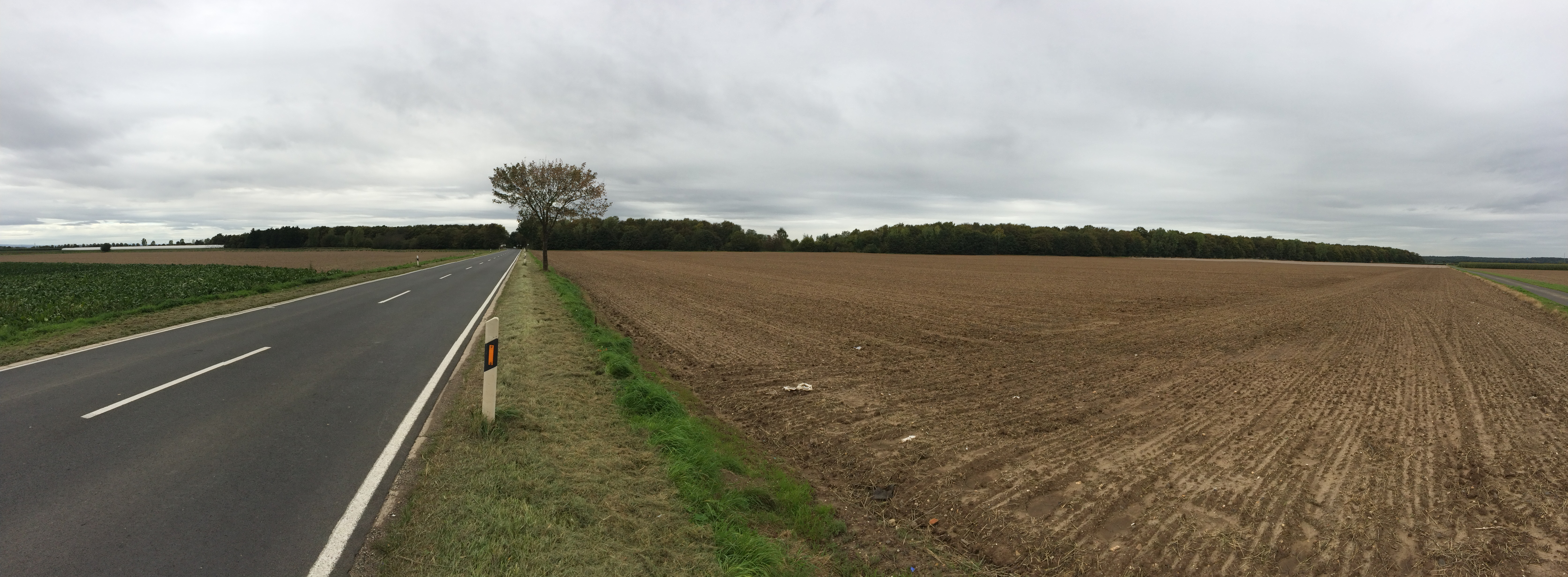 Picture of the WWII Airfield "Strassfeld" near Euskrichen, Germany. The Airfield is overgrown with a thick cover of vegetation. The Picture was taken from the south side, viewing to north.